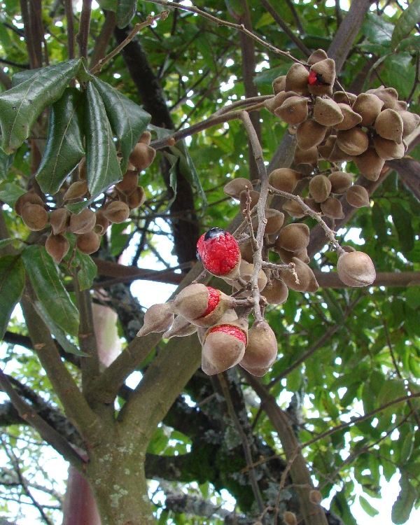 Alectryon excelsus - New Zealand native tree, grows up to 12-20m in height. Titoki is Maori name, sometimes called NZ oak. You can see the ripe fruits, the capsule splits open, revealing a black seed and flashy red aril - food for NZ pigeons and other native birds. Found as a street tree in outer Auckland. The berries of this plant are used to make Ti-toki Liqueur which is exported to Japan, Australia, Fiji and the United Kingdom.